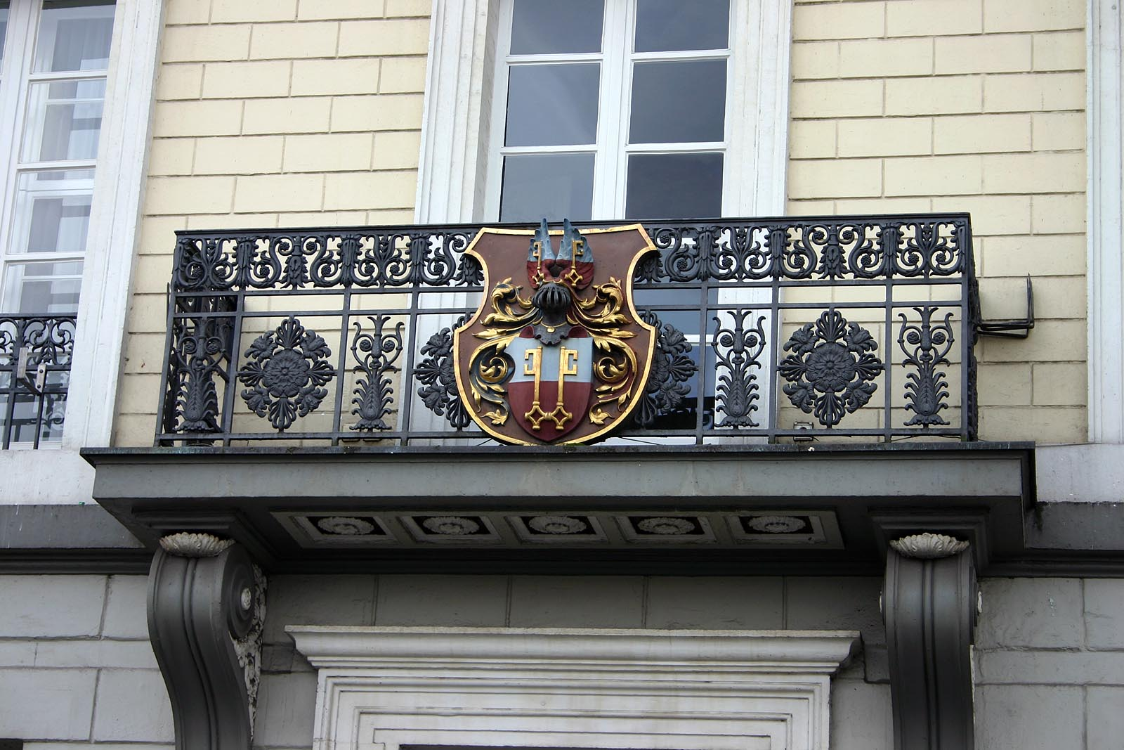 Balcony of the town hall of Krefeld-Uerdingen, Germany Date: 28th March 2005